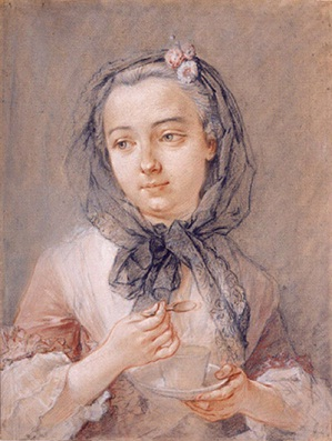 Charlotta Fredrika Sparre (1719-1795), as married Charlotta Fredrika von Fersen, Swedish lady-in-waiting.